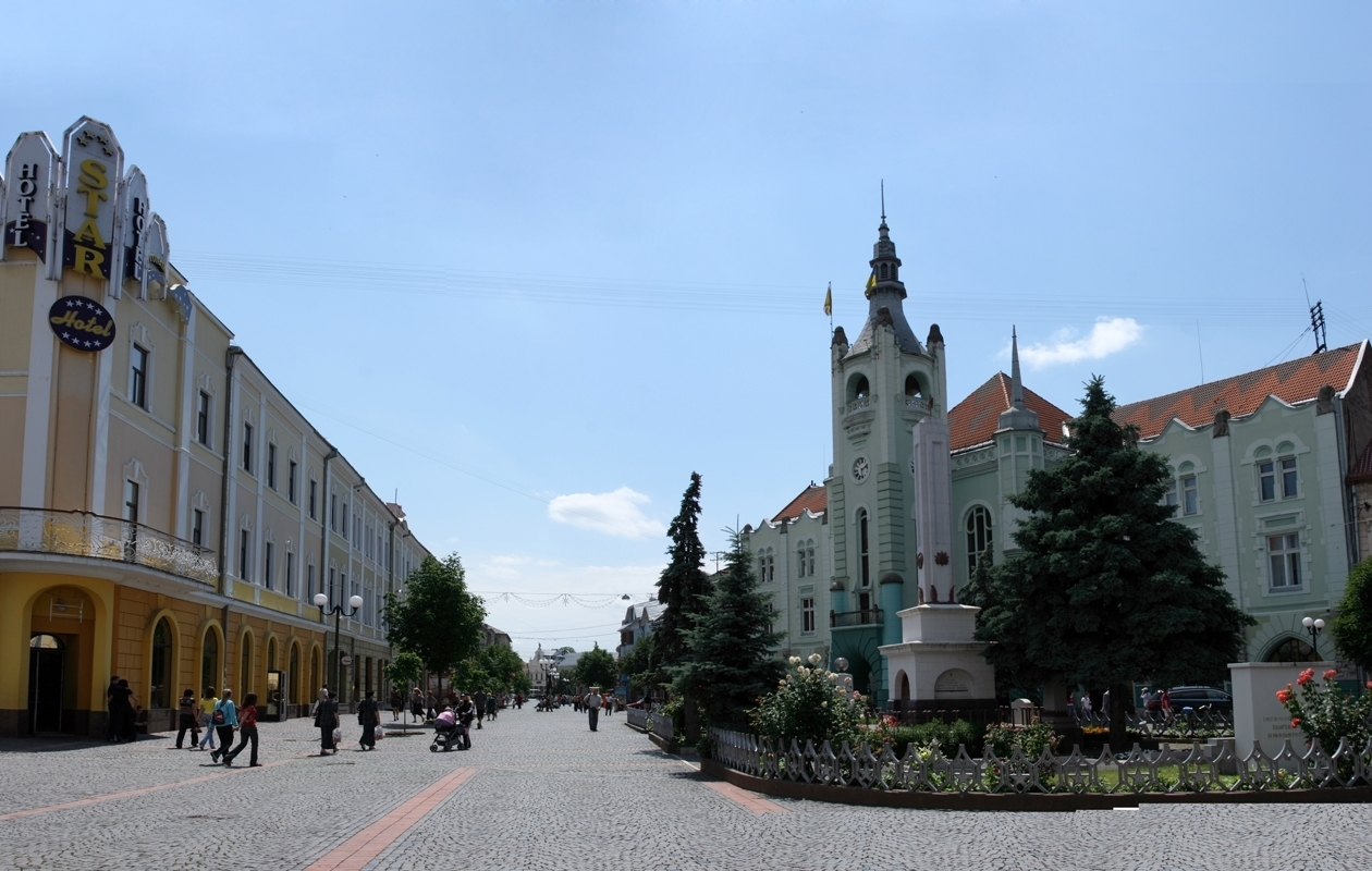 Townhall in Mukachevo, Ukraine